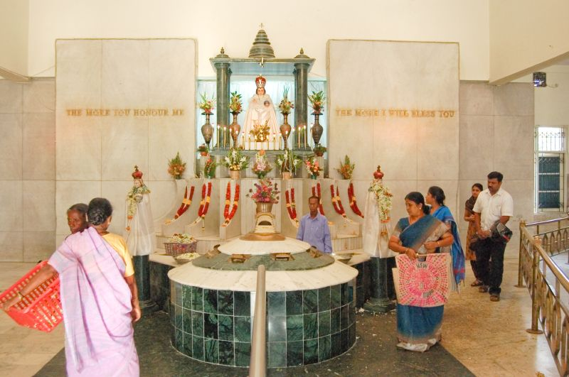 This shot is from the inside of the Church of the Infant Jesus, one of the oldest Christian churches in Bangalore. According to my friend Venu, people of all faiths are welcome to come here to pray to the Infant Jesus.